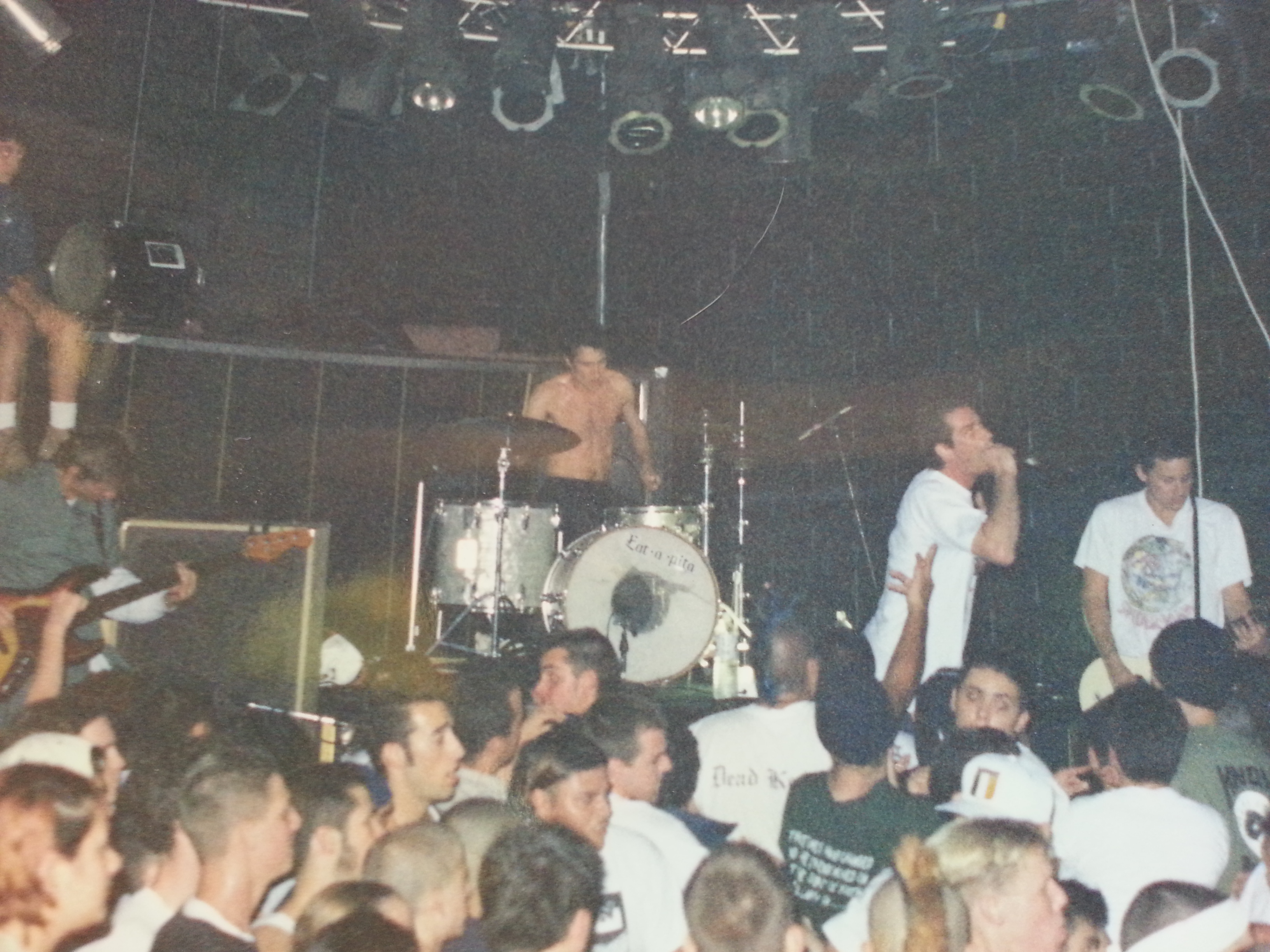 DFL live at the Showcase, circa 1996.